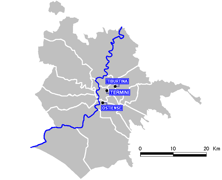 Map of the commune of Rome, divided per municipality, showing the position (black dot) of its most important railway stations: Termini, Tiburtina and Ostiense